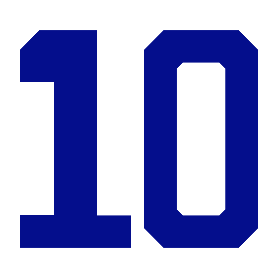 A recreation of how it looks like at Kauffman Stadium.